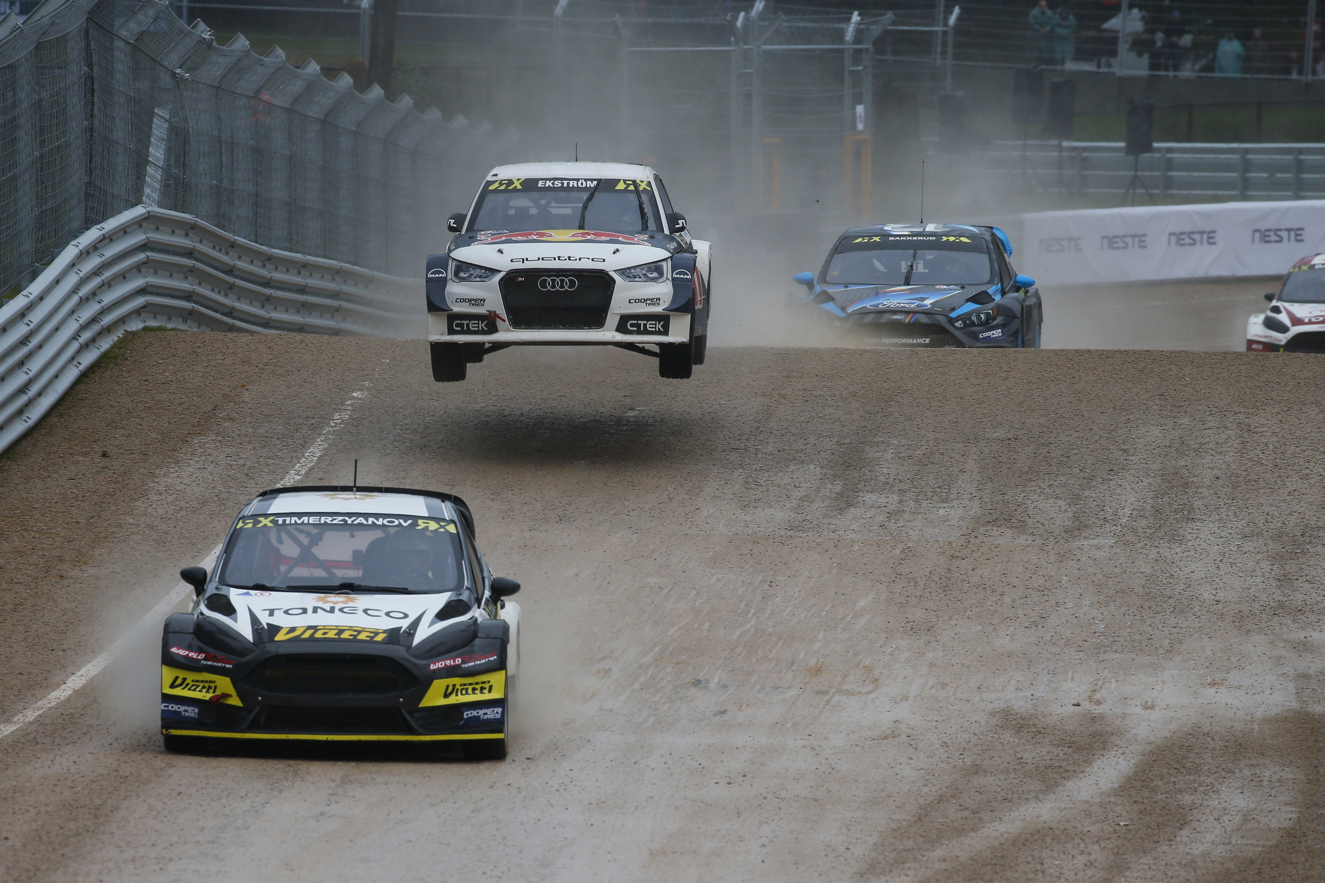 2016 FIA World RX Rallycross Championship / Round 10, Riga, Latvia, October 1-2 2016 // Worldwide Copyright:Tony Welam/EKS/McKlein